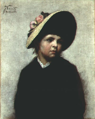 Portrait of a girl by Jan Kauzik